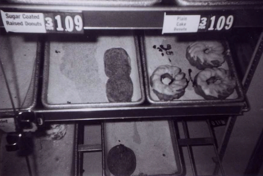 Black and white photo of Doughnuts on display in store window.